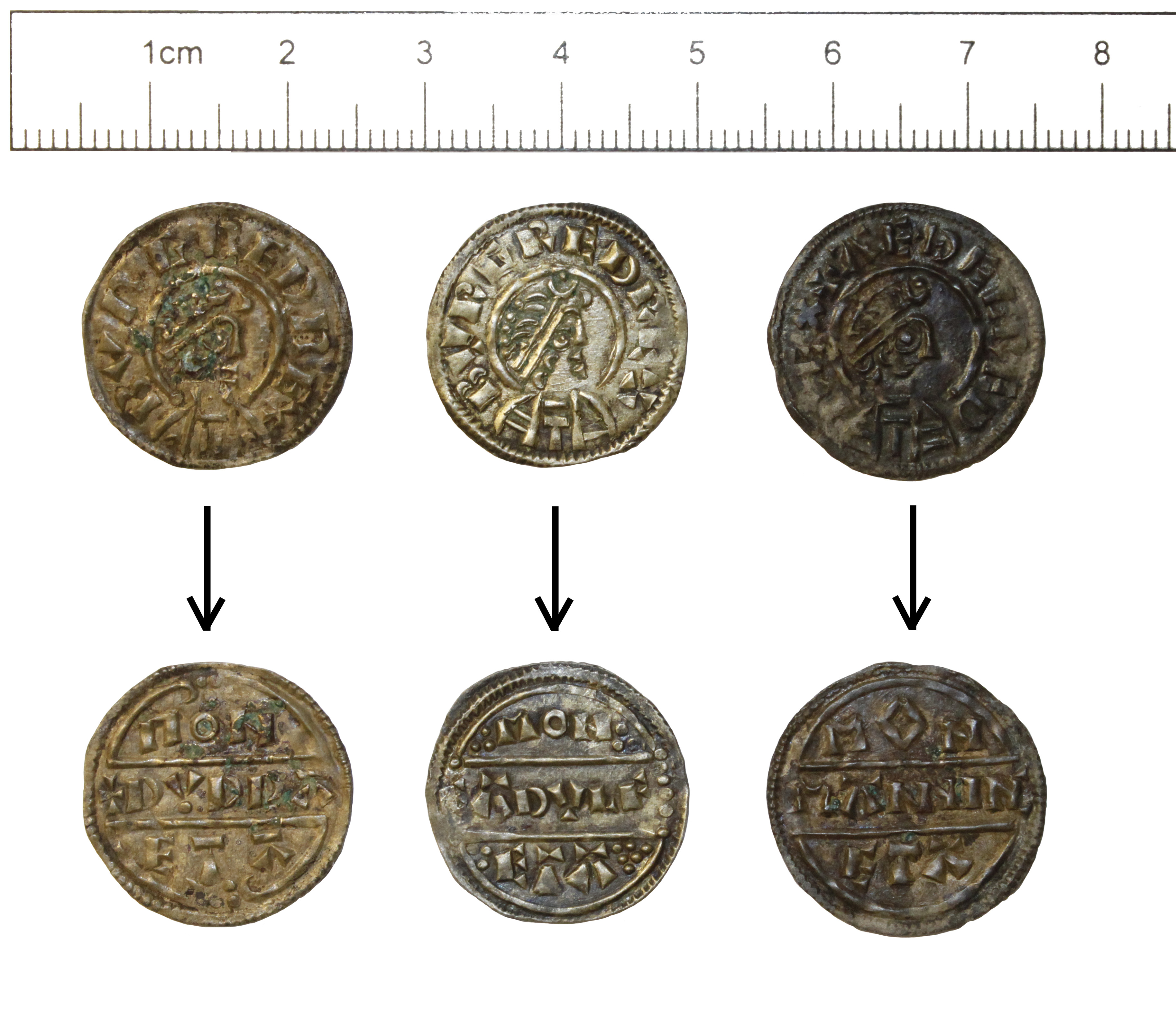 Three silver Early-Medieval coins. - A three line Lunette 'type B' coin of Burgred, King of Mercia, AD 852-874. North number 424. Obverse shows a diademed bust right, the body breaking through the area of legend. Obverse legend reads BVRGRED REX. Reverse shows a three line Lunette, type B. Reverse inscription reads MON/+DVDDA/ETA. Moneyer is Dudda. Die axis is 6 o'clock. Weight is 1.38g, diameter is 20.4mm, thickness is 0.9mm. See North, J.J., 1994 English Hammered Coinage: Volume I. Early Anglo-Saxon to Henry III, c. 600-1272 London : Spink and Son Ltd, pp.100, no.424. - A three line Lunette 'type A' coin of Burgred, King of Mercia, AD 852-874. North number 423. Obverse shows a diademed bust right, the body breaking through the area of legend. Obverse legend reads BVRGRED REX. Reverse shows a three line Lunette, type A. Reverse inscription reads MON/ADVLF/ETA. Moneyer is not shown in North but is presumably Adulf or something similar to this. Die axis is 612 o'clock. Weight is 1.24g, diameter is 20.6mm, thickness is 0.9mm. See North, J.J., 1994 English Hammered Coinage: Volume I. Early Anglo-Saxon to Henry III, c. 600-1272 London : Spink and Son Ltd, pp.100, no.423. - A three line Lunette 'type A' coin of Aethelred I, King of Wessex, AD865/6-871. North number 622. Obverse shows a diademed bust right, the body breaking through the area of legend. Obverse legend reads +AEDELRED/REX, this exact inscription is not shown in North. Reverse shows a three line Lunette, type A. Reverse inscription reads MON/MANNIN:/ETA. Moneyer is Manninc. Die axis is 3 o'clock. Weight is 1.18g, diameter is 20.9mm, thickness is 0.9mm. See North, J.J., 1994 English Hammered Coinage: Volume I. Early Anglo-Saxon to Henry III, c. 600-1272 London : Spink and Son Ltd, pp.123, no.622.